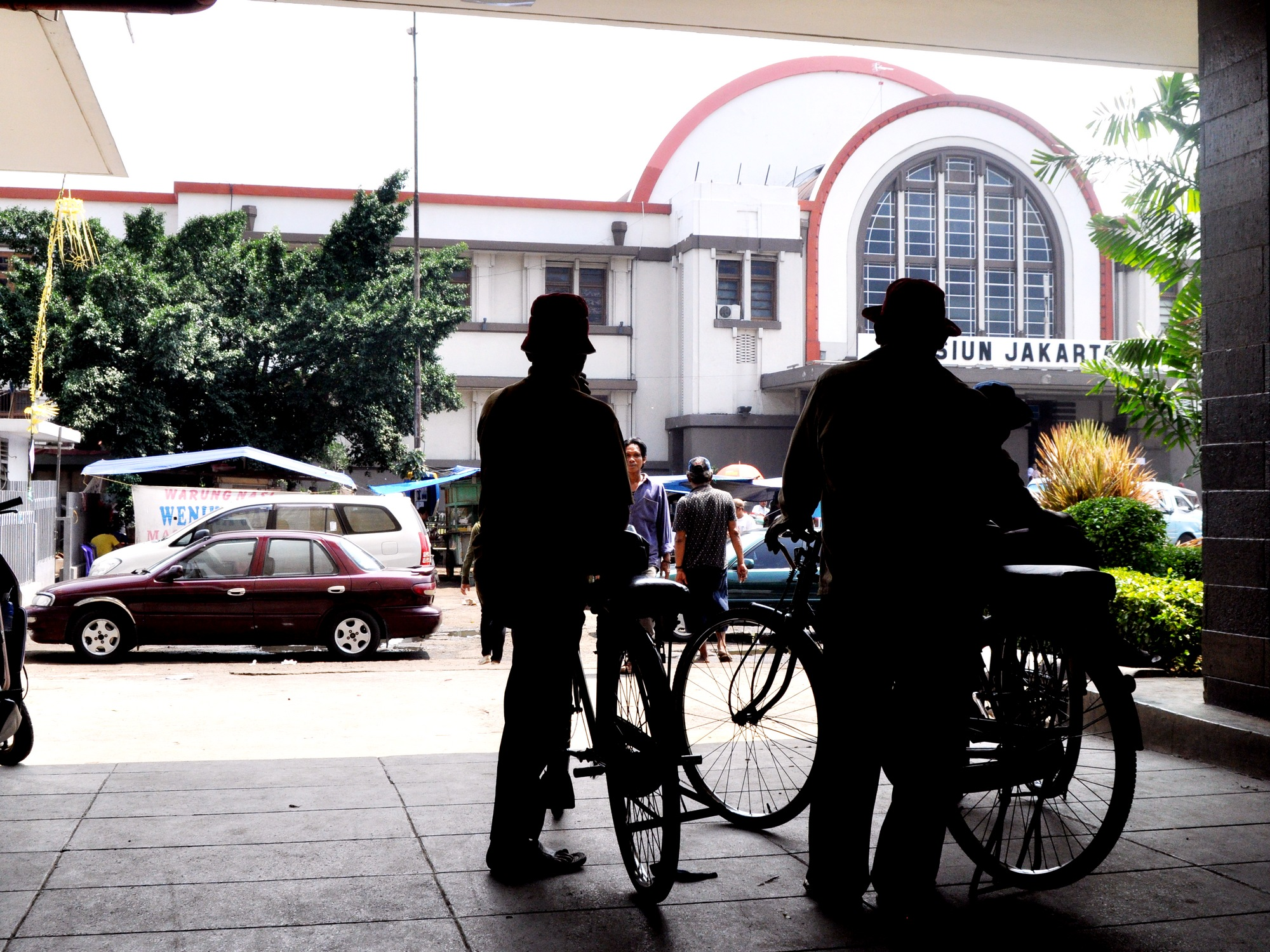 Ojek, originally from, a bicycle taxi. Some ojek awaiting passenger, near Jakarta Kota Train-station, Jakarta, Indonesia.